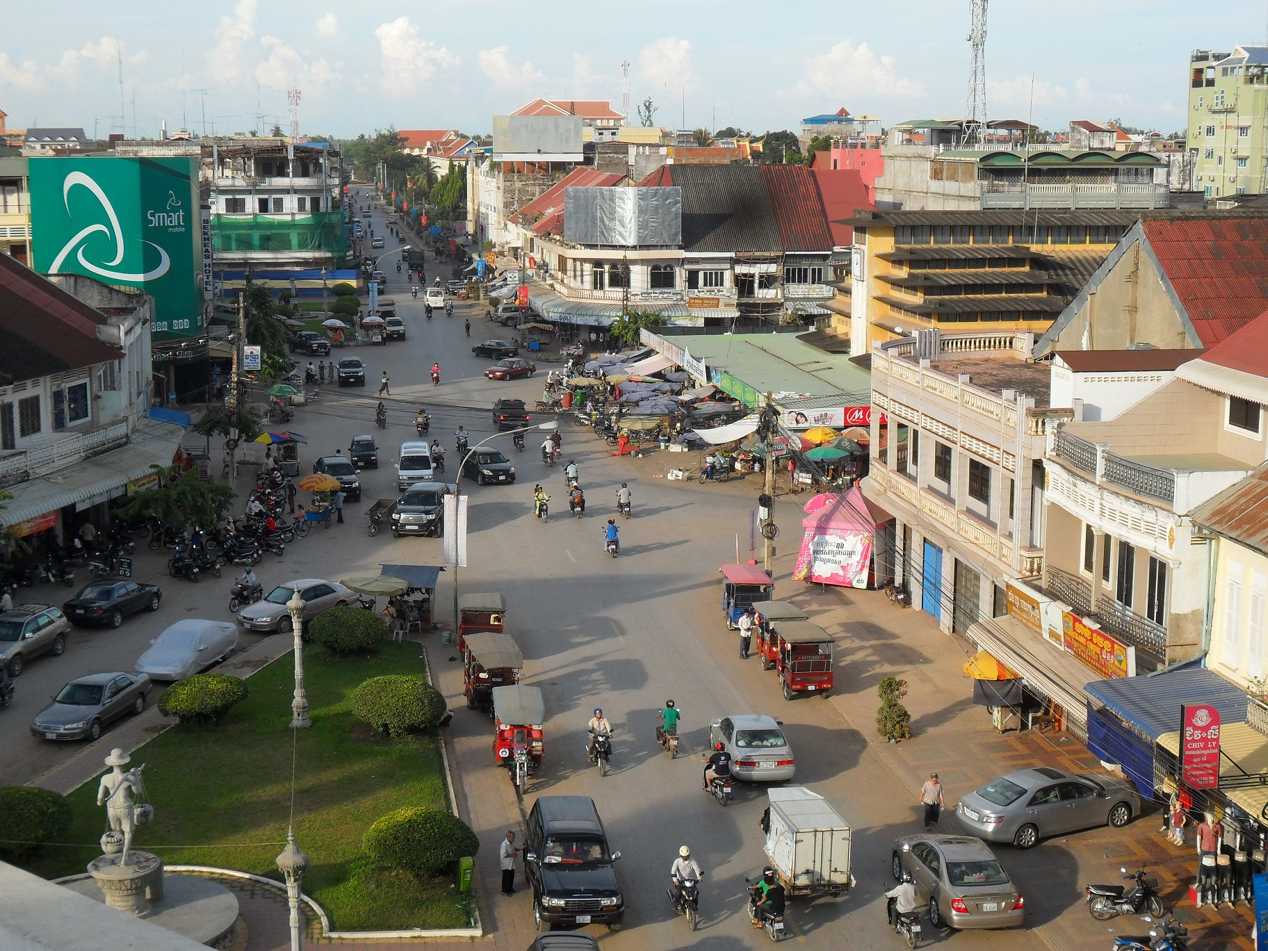 National Highway 5 intersecting Street 207 and Street 212 in downtown Battambang City near the central market, Cambodia